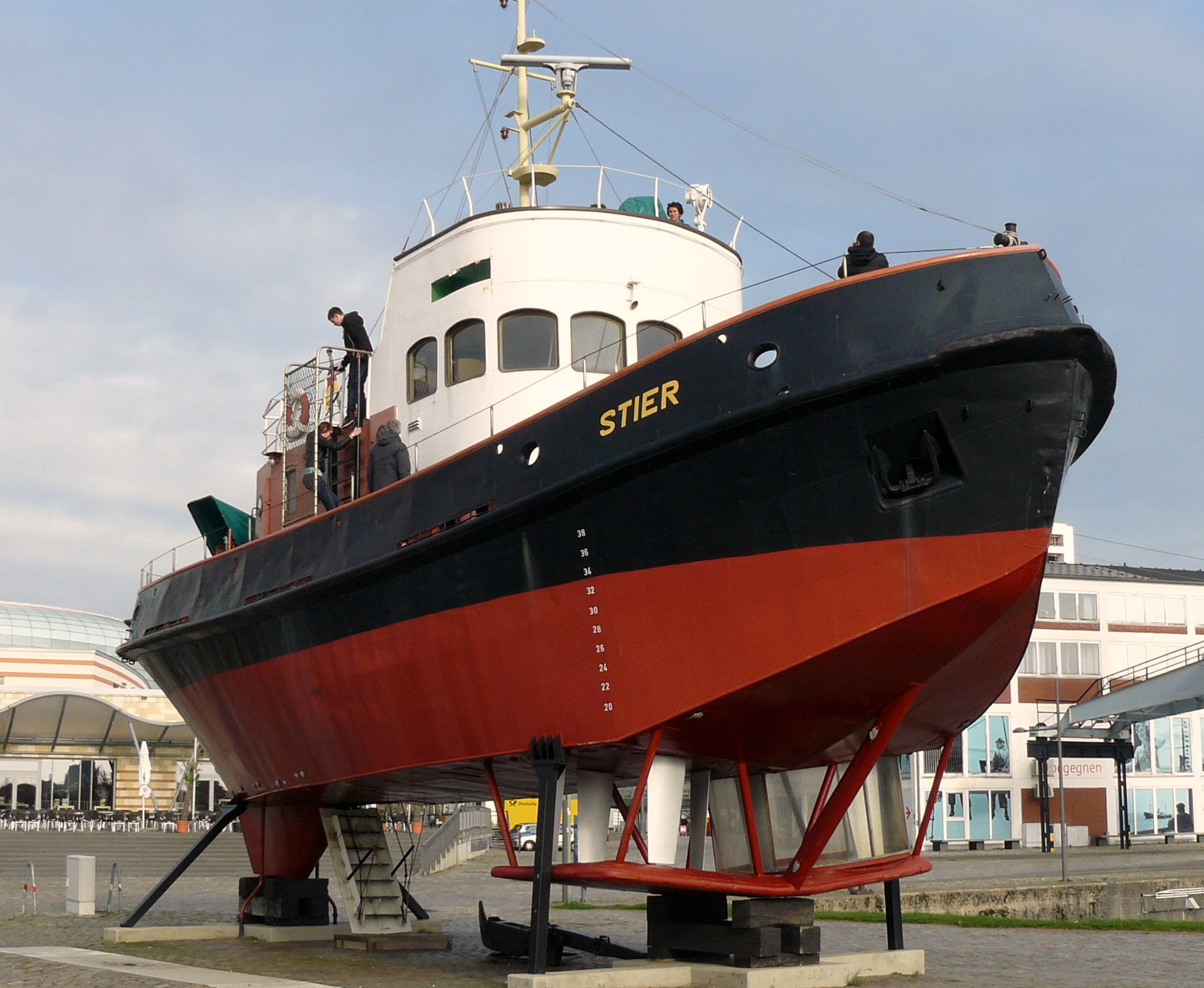 harbour tugboat Stier, with Voith-Schneider propellers, at the Deutsches Schiffahrtmuseum in Bremerhaven (October 2014)